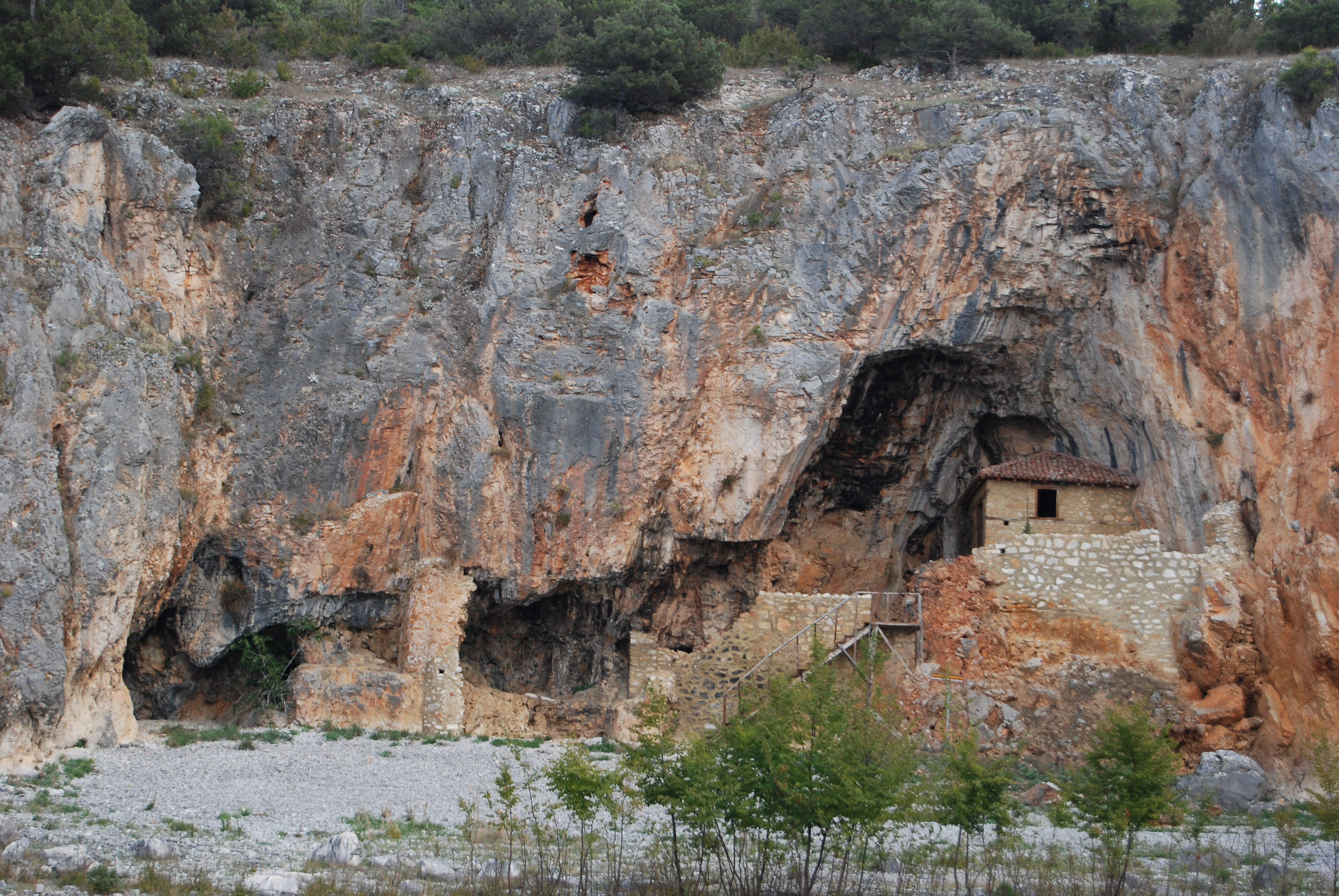 Church in the rocks in Psarades/Nivici, Greece